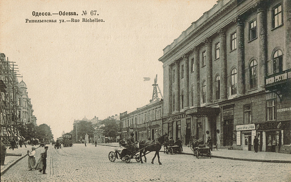 The Richelieu Street. Odessa